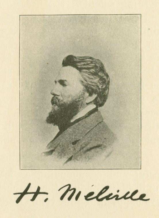 American author Melville portrait